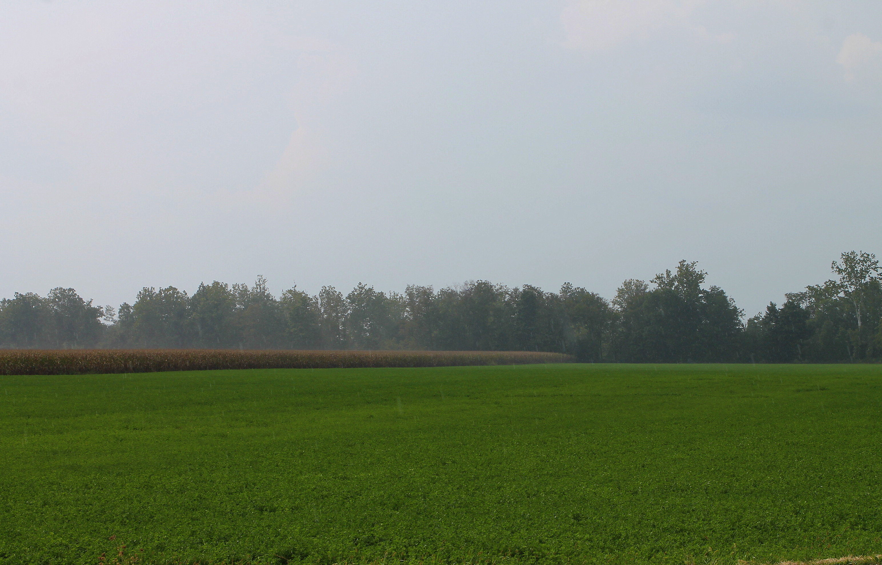 Field in Wolf Township, Lycoming County, Pennsylvania, with some rain coming down